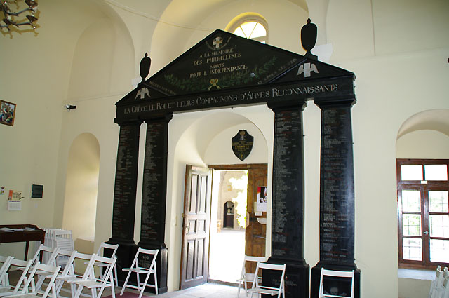 The apse, which has become known as the Touret Apse, is made of pine and is in the form of the façade of an ancient Greek temple, a well-known characteristic of neo-classical funeral monuments. On the columns, written in white, are the names of foreign Philhellenes and the places where they fell; while on the gable there are the shield and crown of Otto, inside the cross which was the standard of the fighters.